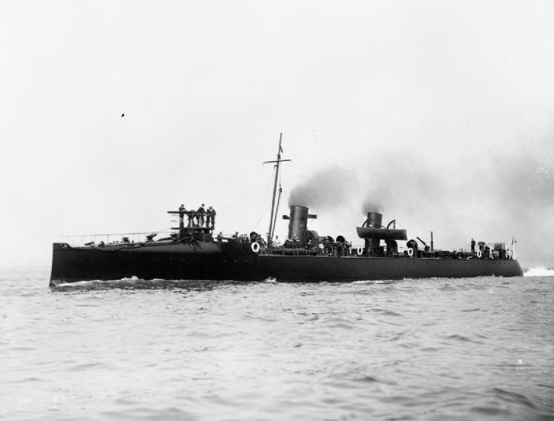 Photograph of British destroyer HMS Bruizer.